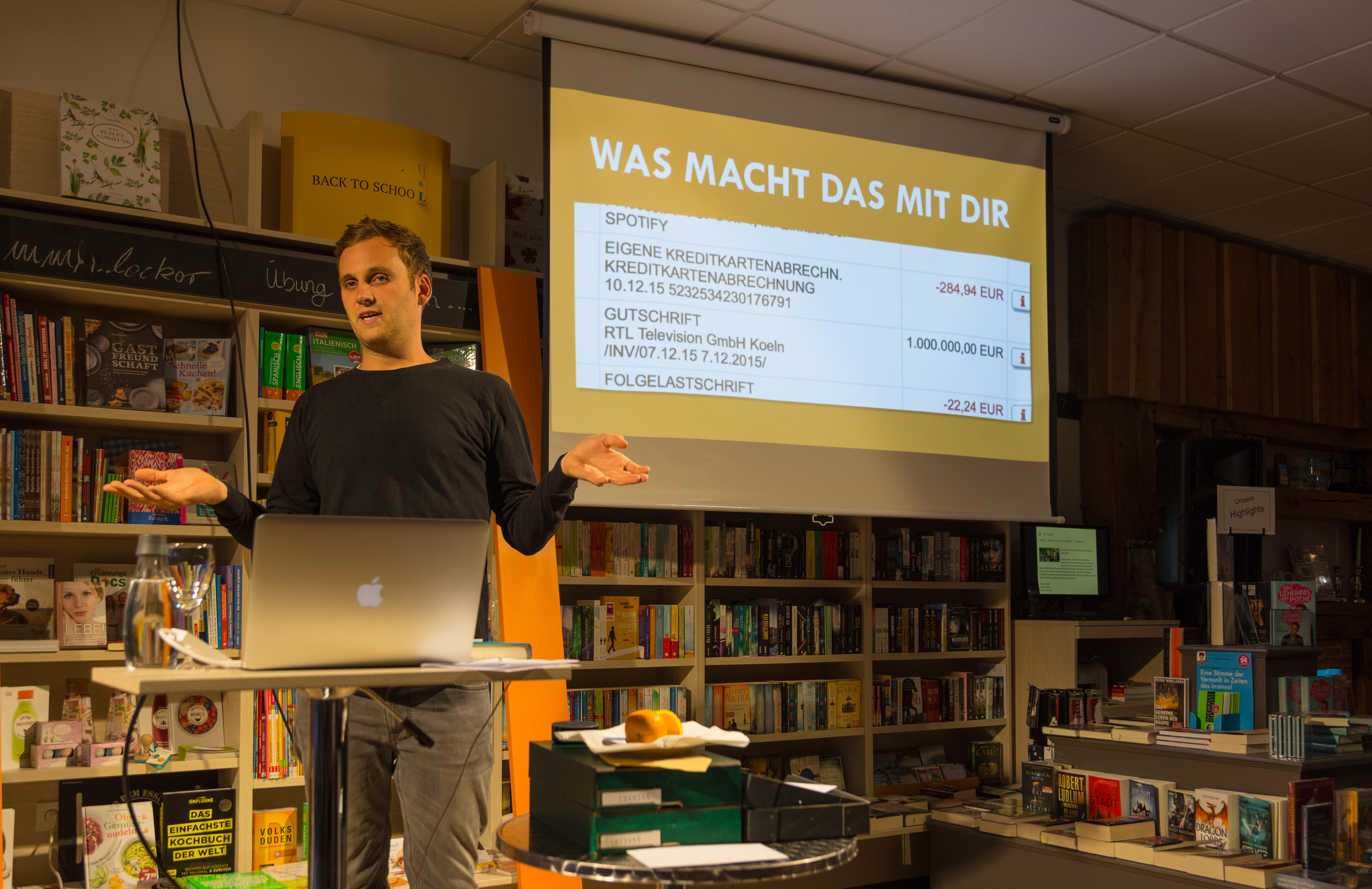 German businessman and psychologist Dr Leon Windscheid at Volk Book Store (Buchhandlung Volk) in Recke, Kreis Steinfurt, North Rhine-Westphalia, Germany. This evening Windscheid read from his book Das Geheimnis der Psyche. Wie man bei Günther Jauch eine Million gewinnt und andere Wege, die Nerven zu behalten. Wer wird Millionär? (English translation: Who will become a millionaire?) is a German game show based on the original British format of Who Wants to Be a Millionaire?. Windscheid won the €1 million in 2015. Here he shows a bank statement confirming the transfer of the amount to his account.